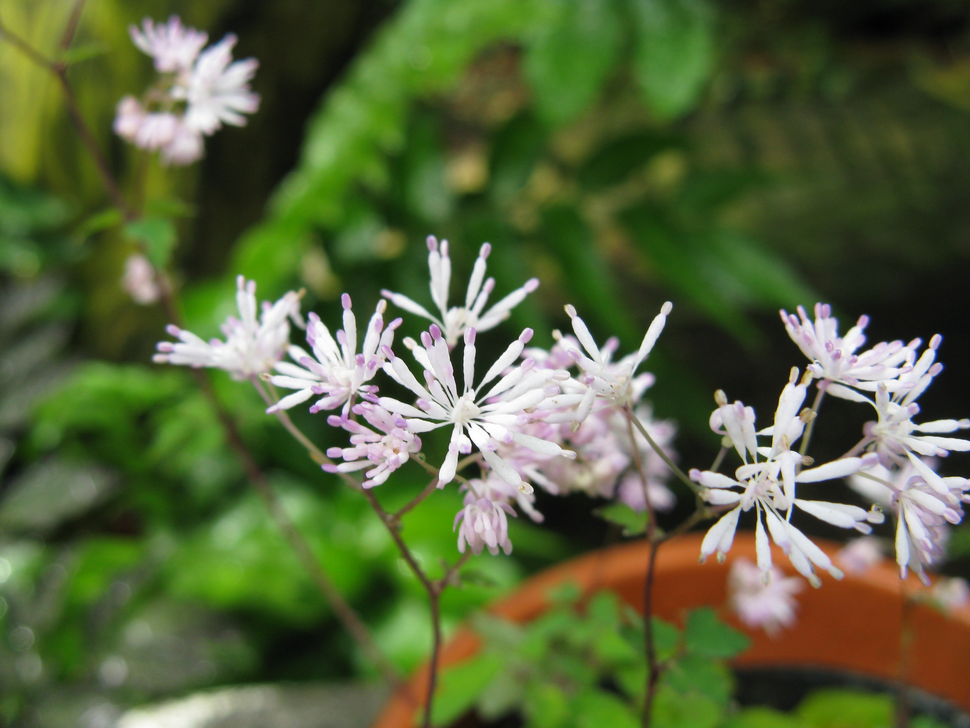 Thalictrum kiusianum